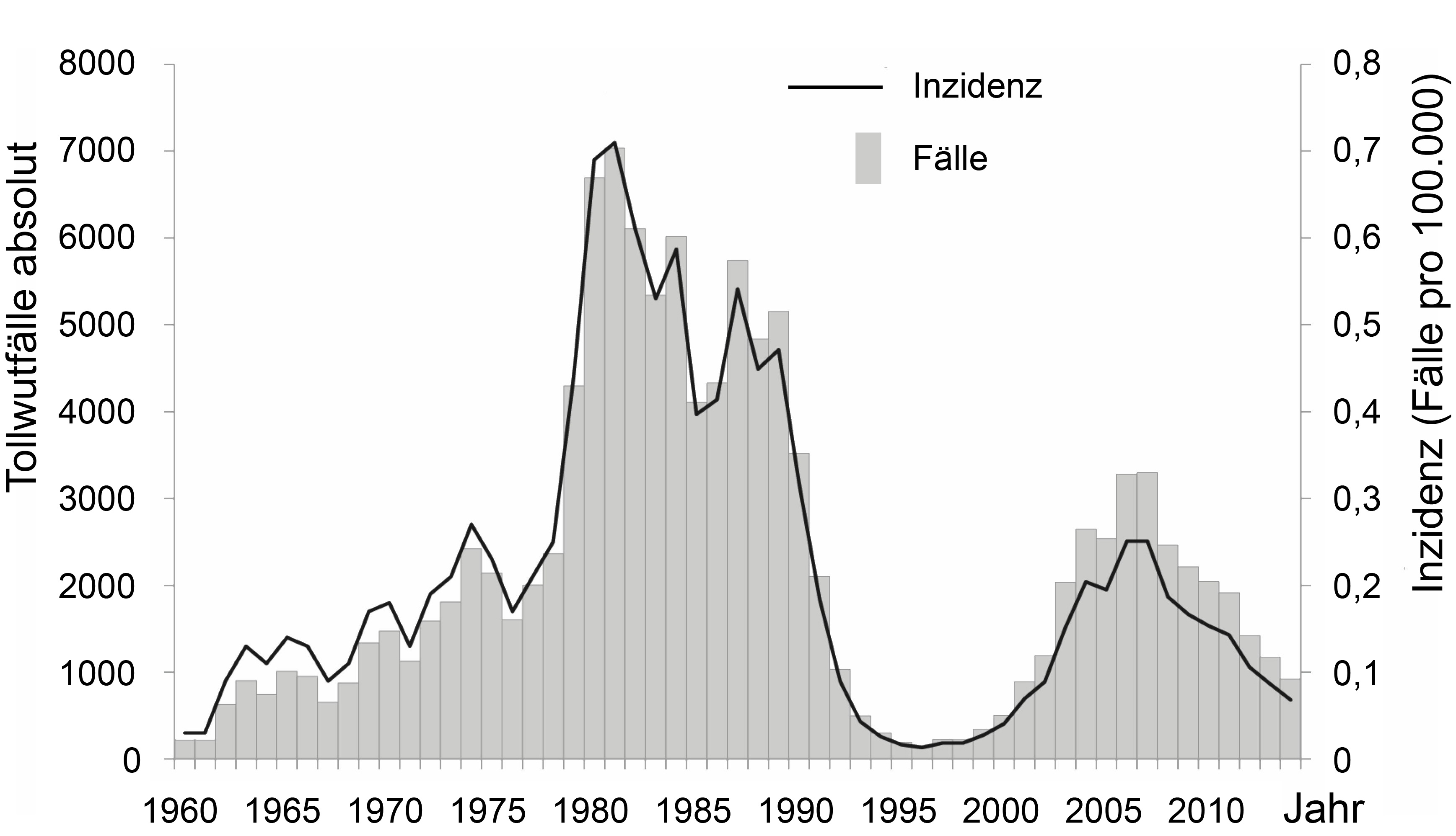 Human rabies in the People’s Republic of China, 1960–2014